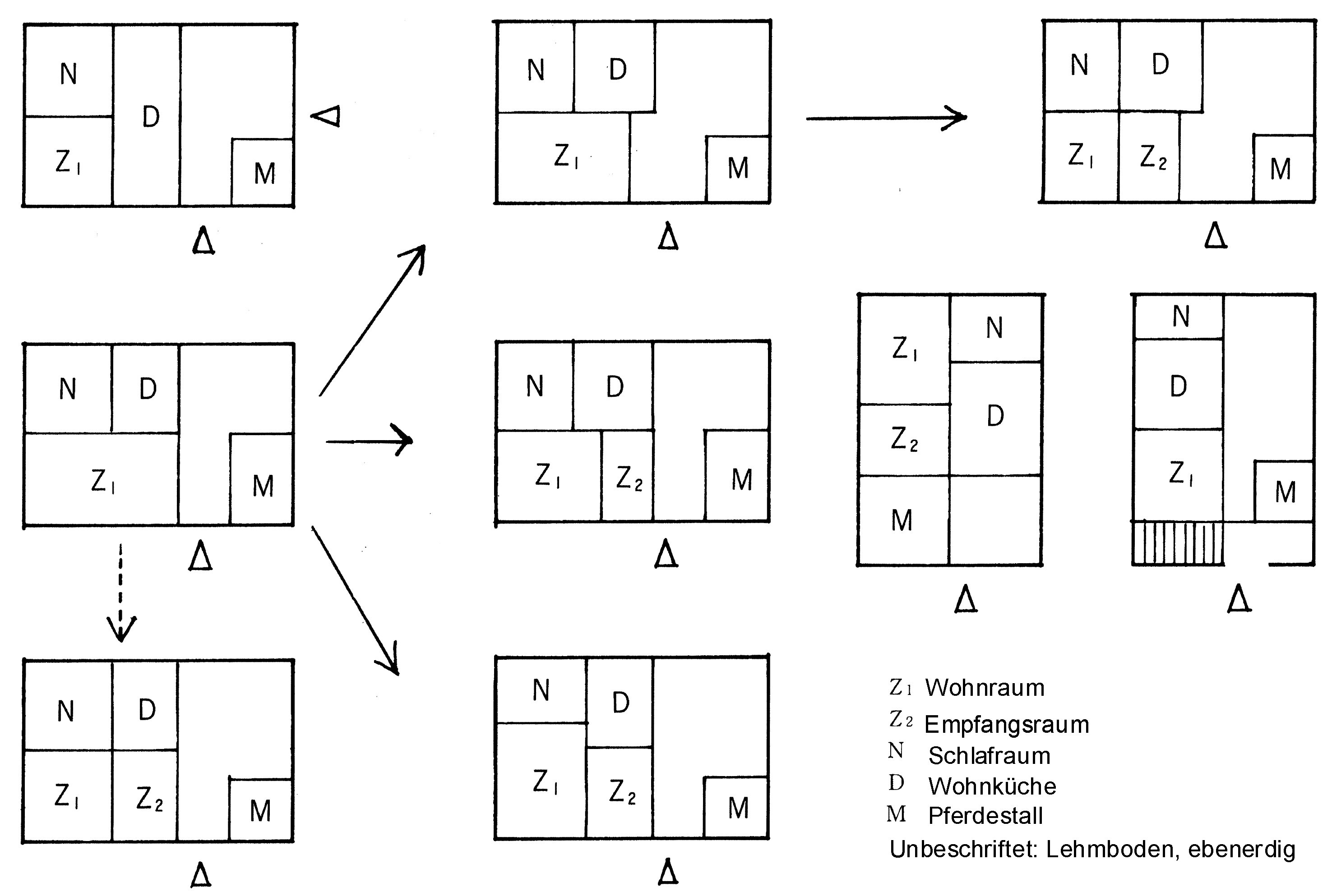 Layout of middle class dwellings until 1950ies in Japan